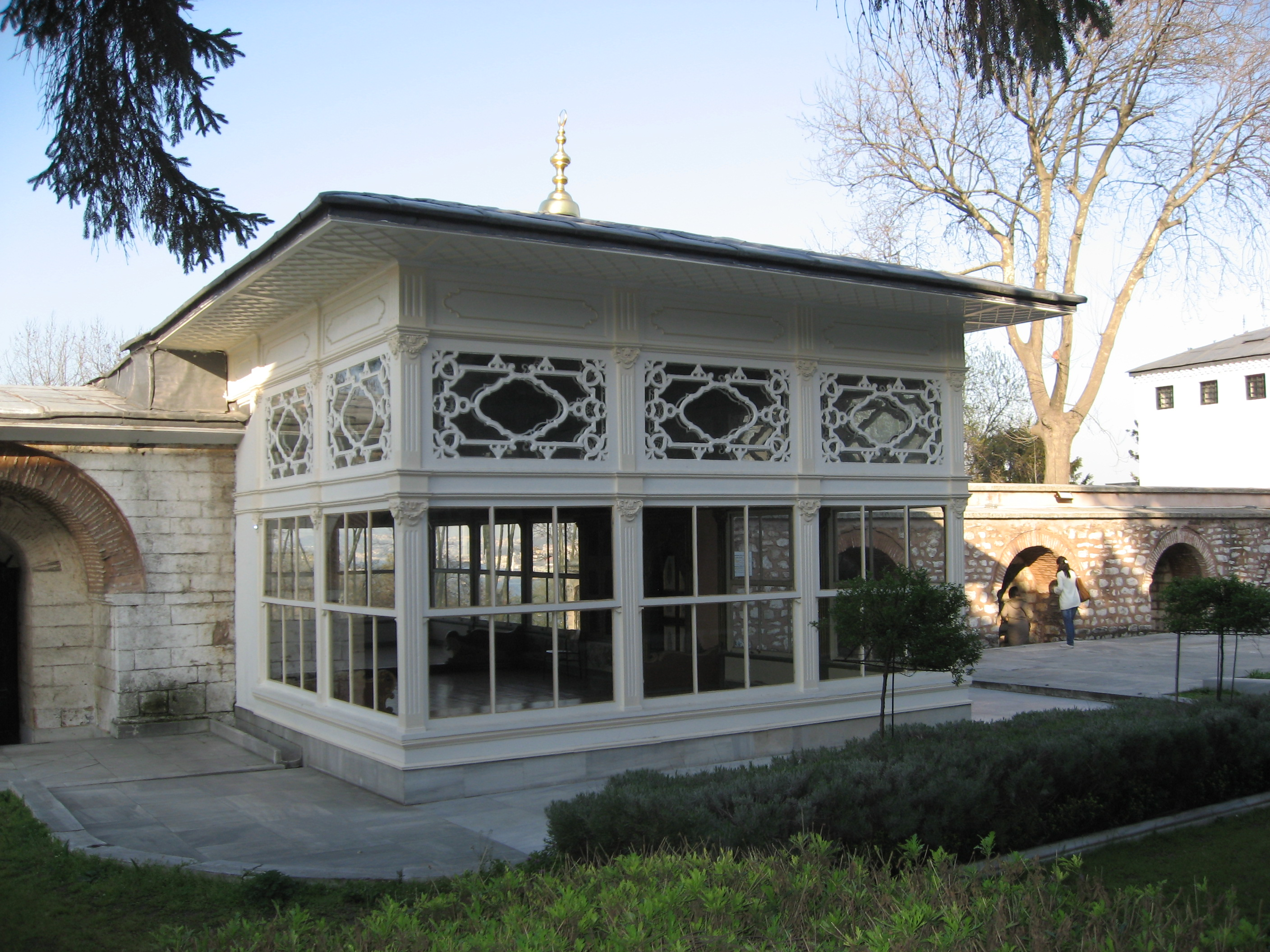 The Terrace Kiosk, also known as Mustafa Pasha Kiosk at Topkapi Palace in Istanbul.